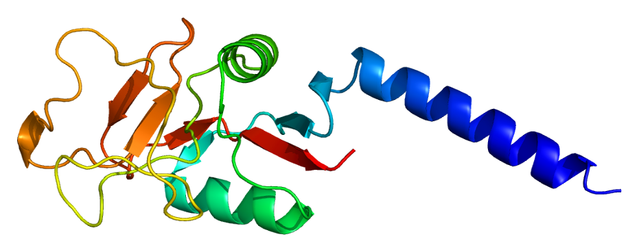 Structure of the MBL2 protein. Based on PyMOL rendering of PDB 1hup.